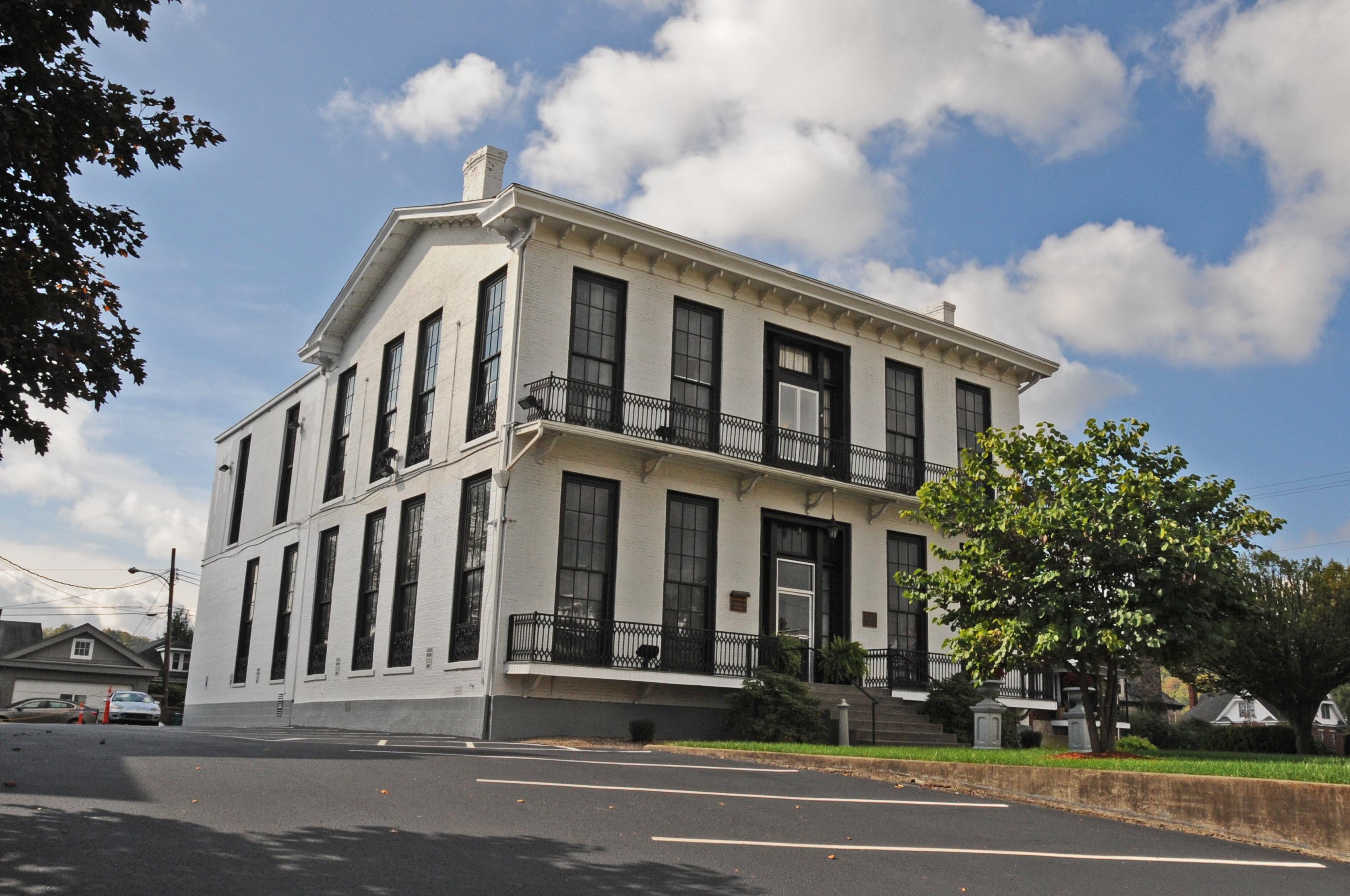 BURTON DESPARD HOUSE BUILT IN 1852 AND IS THE OLDEST HOUSE IN THE DISTRICT. NOW HOUSES A FUNERAL PARLOR